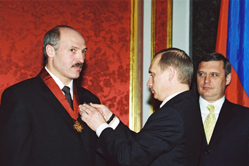 THE GRAND KREMLIN PALACE, MOSCOW. Belarusian President Alexander Lukashenko receives the Order “For Services to the Fatherland”, 2nd Class.